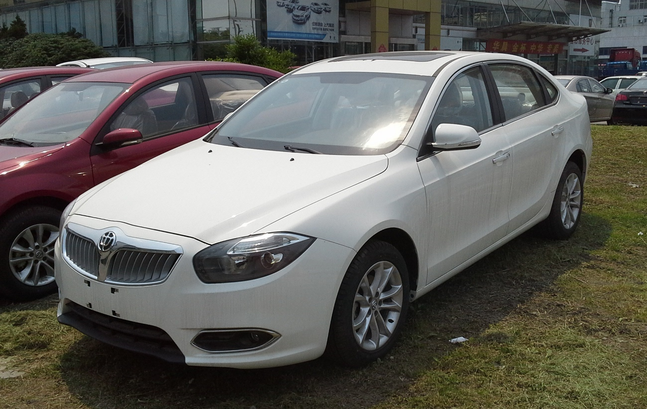 Brilliance H530 photographed in Shanghai, China.